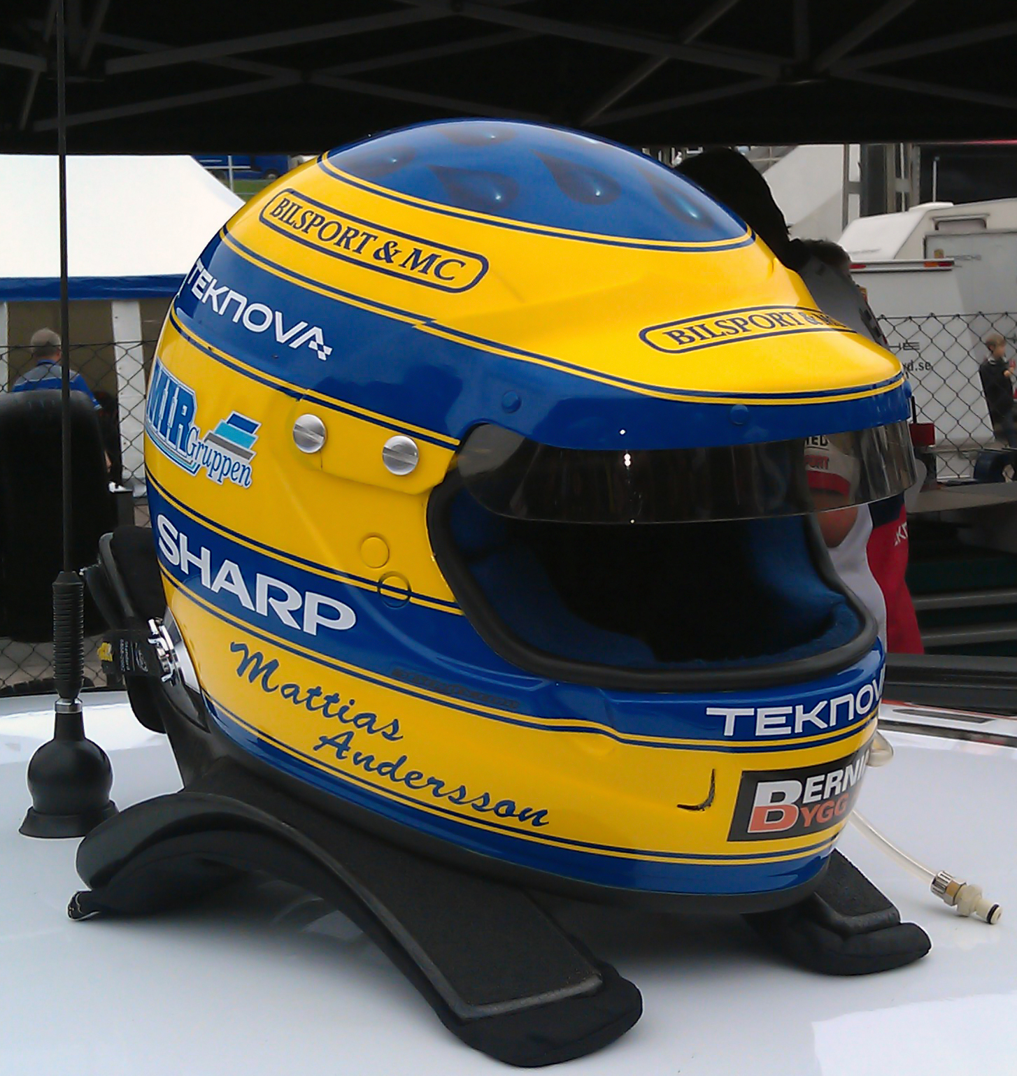 Mattias Andersson's helmet at Ring Knutstorp in 2011.